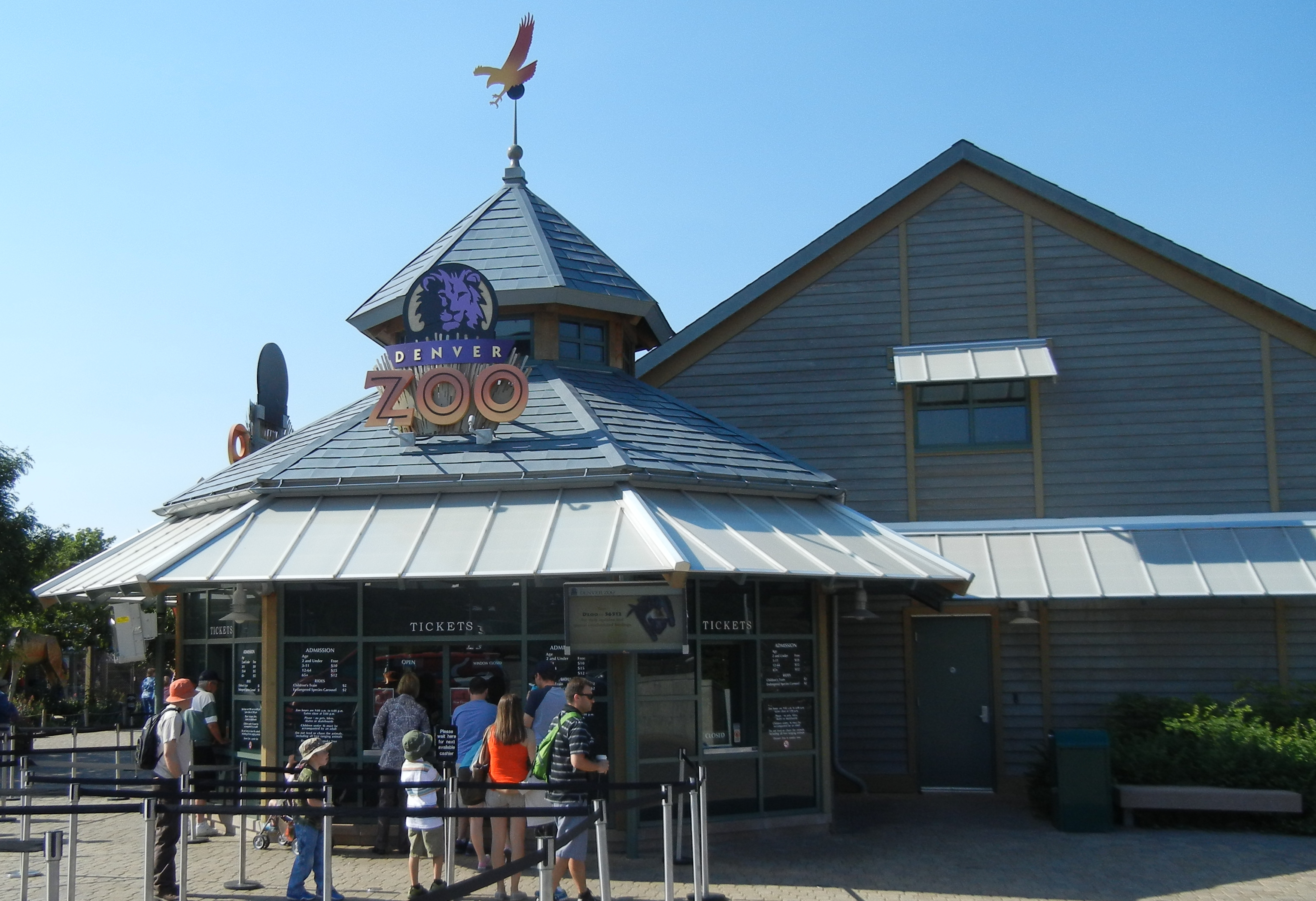 Entrance pavilion of Denver Zoo. 9:00 am on June 11, 2012